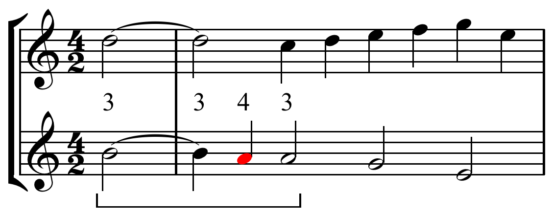 Portamento. Created by Hyacinth (talk) 07:21, 26 February 2010 using Sibelius 5.